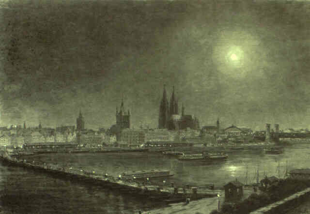 The Rhine near Cologne, by Kegeljan.